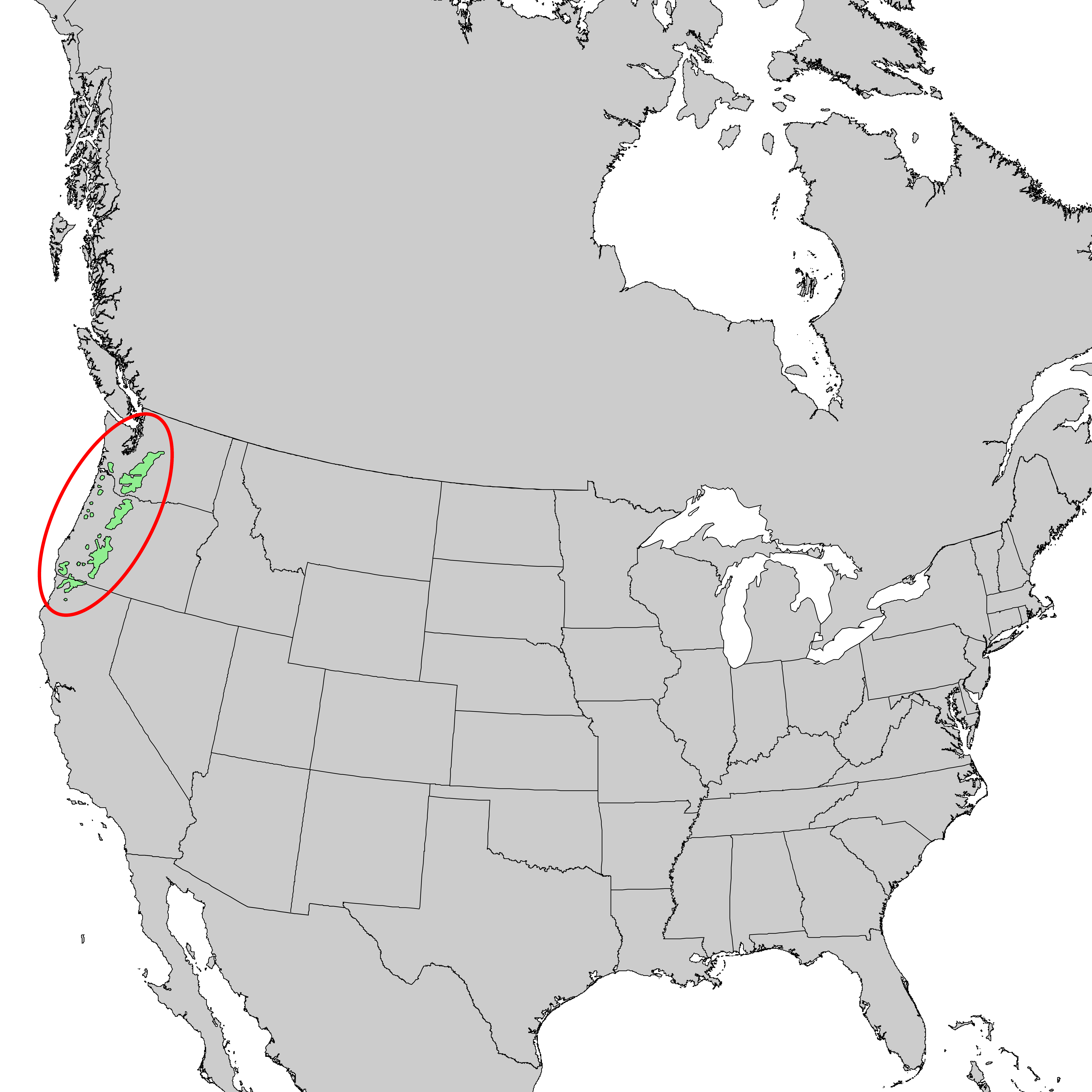 Distribution map for Abies procera Rehder - noble fir